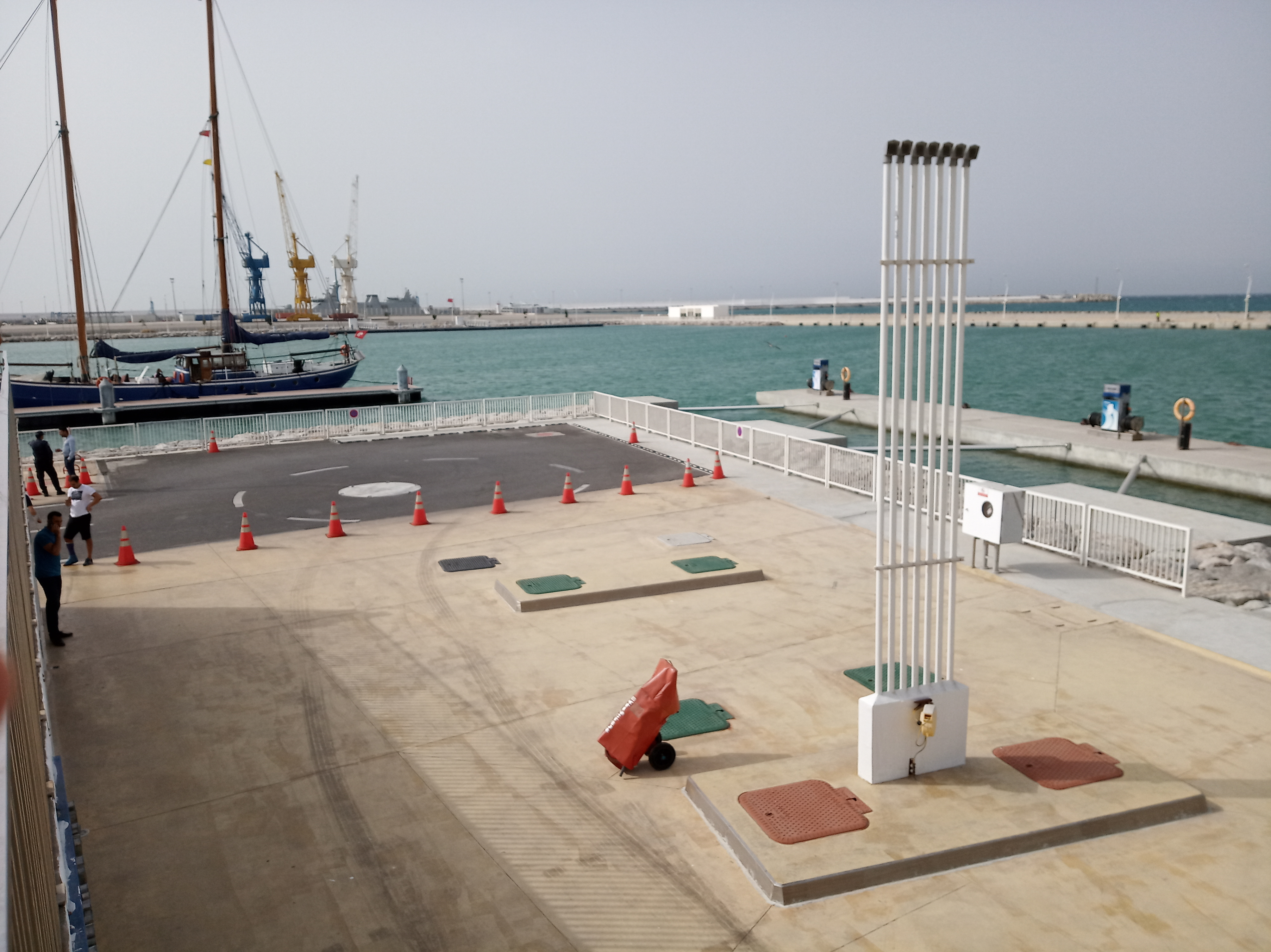 This is an image with the theme "Africa on the Move or Transport" from: Morocco